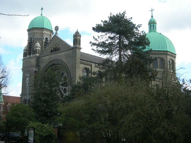 St Joseph's Church, Highgate Picture taken from Waterlow Park. The distinctive green domes can be seen from a long way off.